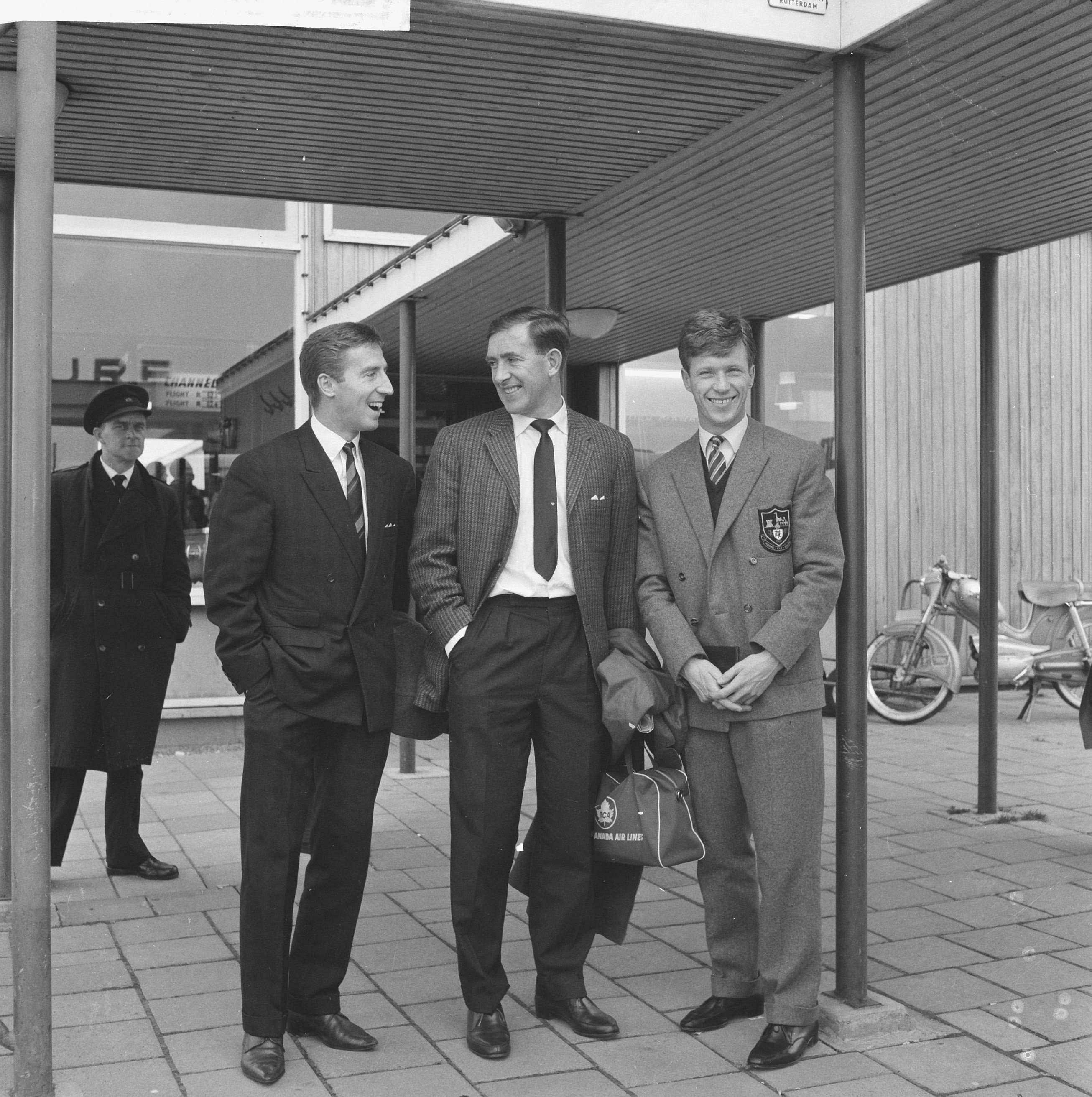 Danny Blanchflower (middle), Cliff Jones, and John White in Rotterdam for a match with Feyenoord in 1961